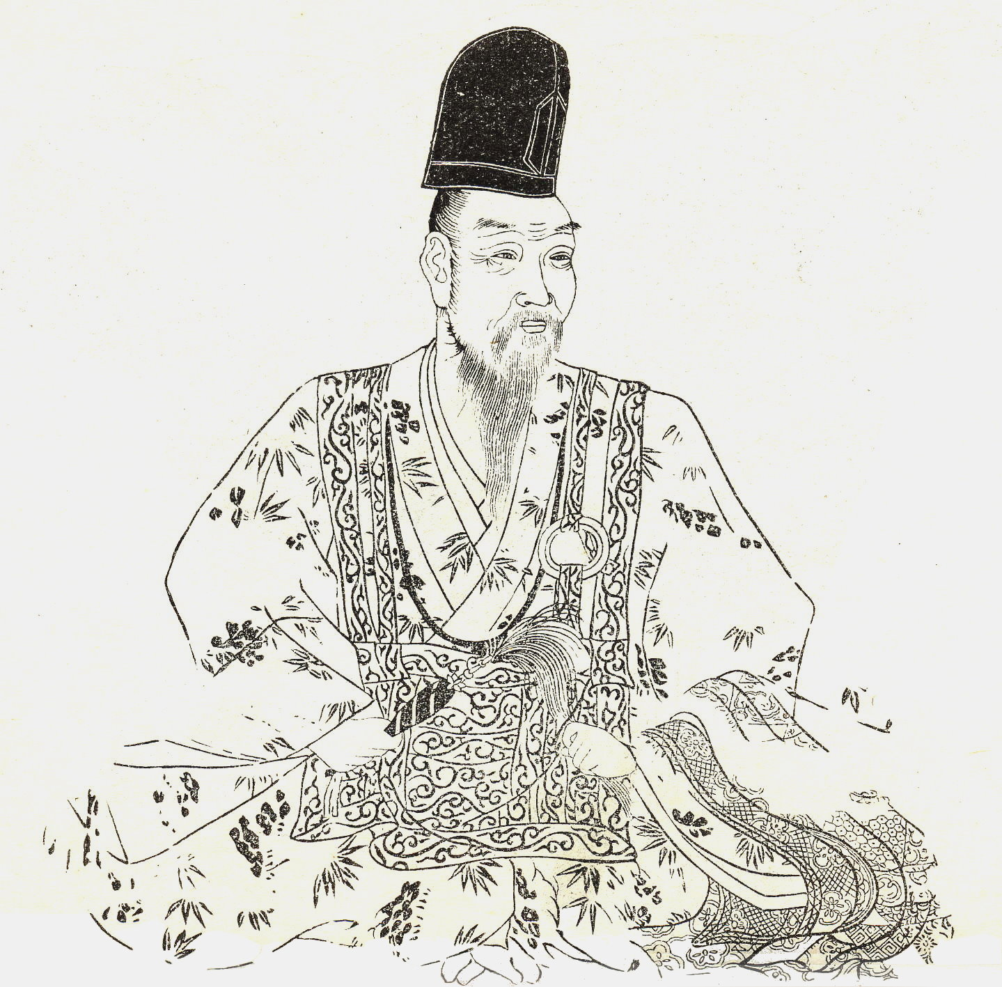 Madenokouji Fujifusa(万里小路藤房)was a japanese court noble in Muromachi era.